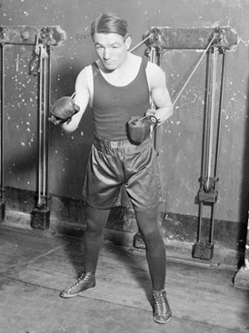 "Full-length portrait of pugilist Andre Routis holding cables attached to pulley weights in his gloved hands, standing in front of a dark backdrop in a gymnasium in Chicago, Illinois."